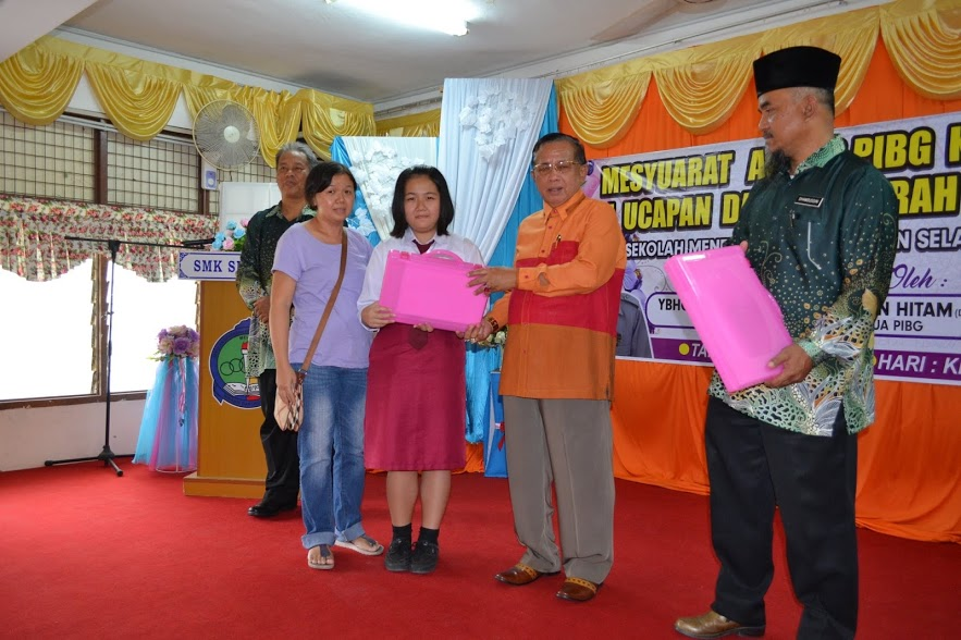 GAMBAR 13